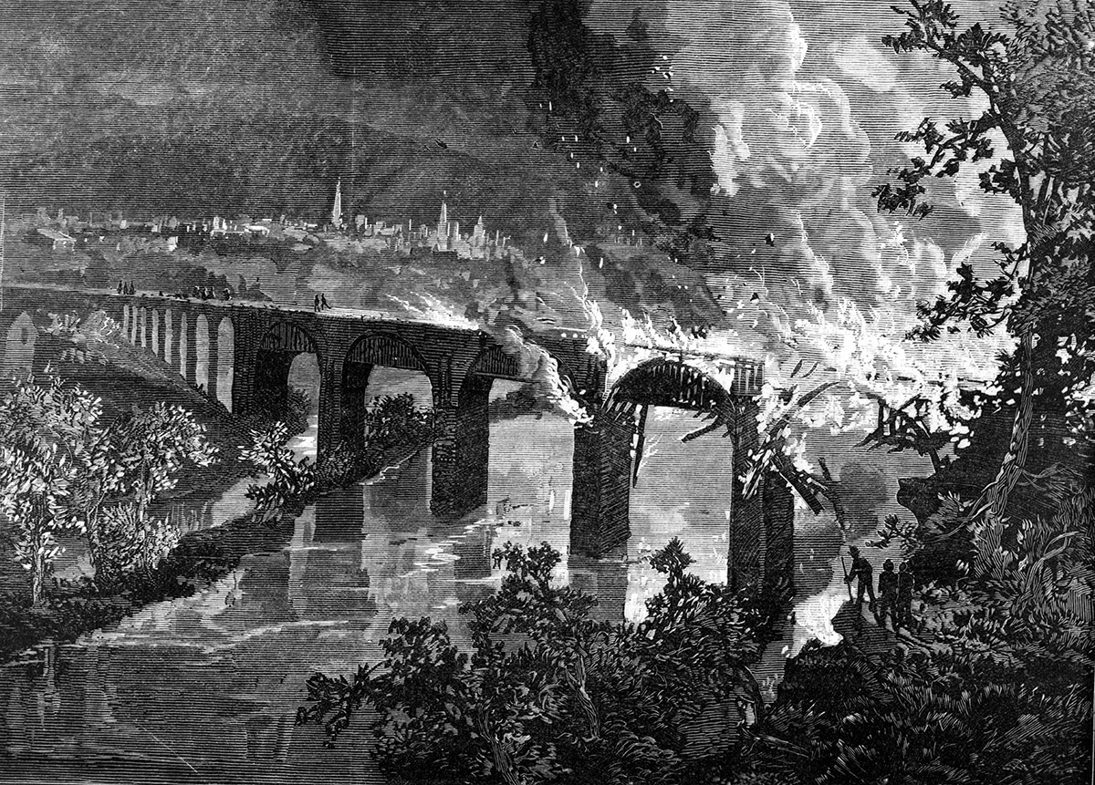 Burning of the Lebanon Valley Railroad Bridge in Reading, PA during the Great Strikes of 1877